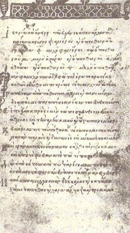 Erwtikon enypnion by Marinos Falieros manuscript